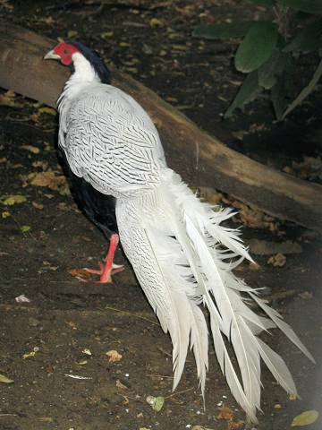 Description: Silver Pheasant - Source: own work - Location: Bronx Zoo, New York - Author: self, User:Stavenn